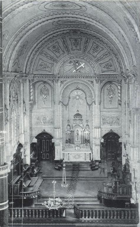 Print (photomechanical), Church interior, Grand River, Gaspé County, QC, about 1910, Ink on paper mounted on card - Collotype - 13.8 x 8.9 cm